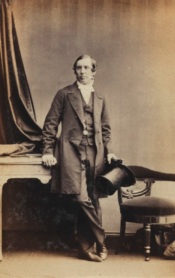 Portrait of Richard Cowley Powles (1819–1901), English cleric, academic and headmaster of Wixenford School.